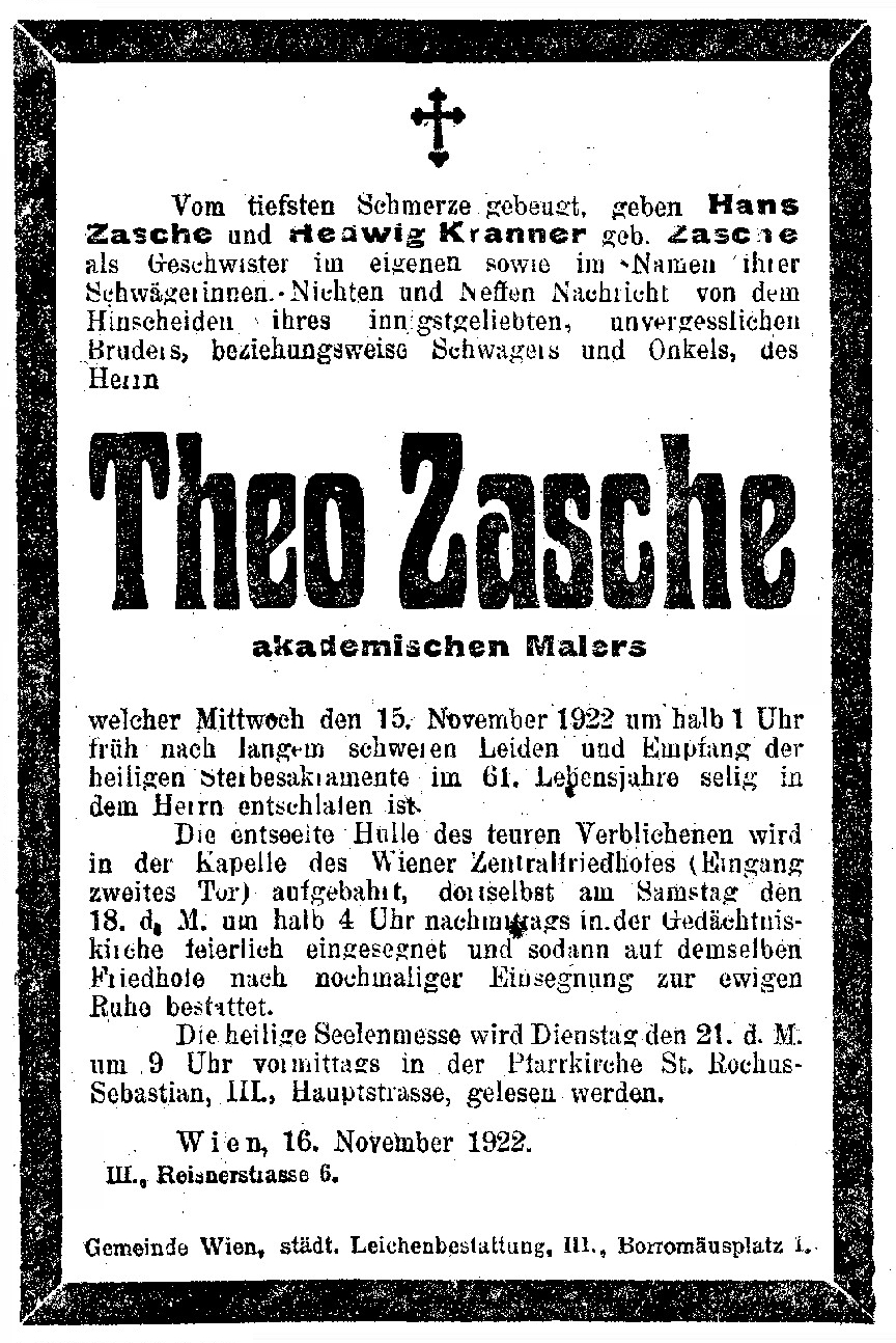 death notice of Theo Zasche (18 October 1862, Vienna — 15 November 1922, Vienna), Austrian painter